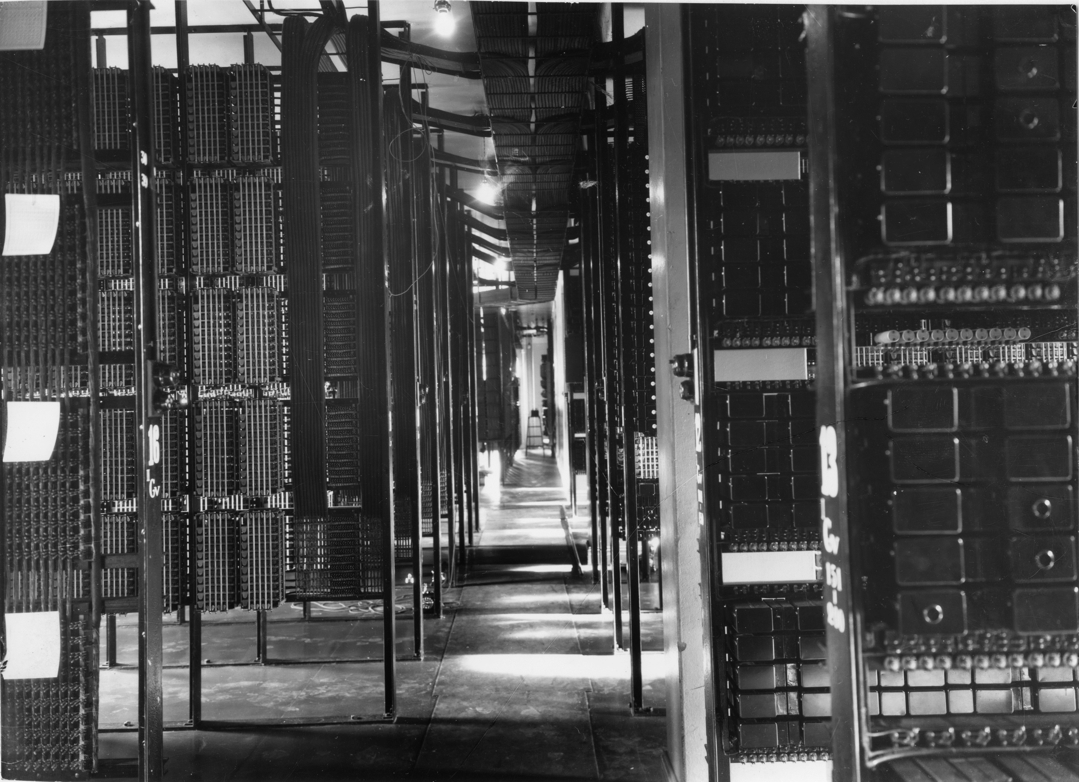 Interior from the world's first major crossbar switch exchange, in Sundsvall, Sweden in 1926. The station held 3500 subscribers. Tekniska museet: TEKA0134297